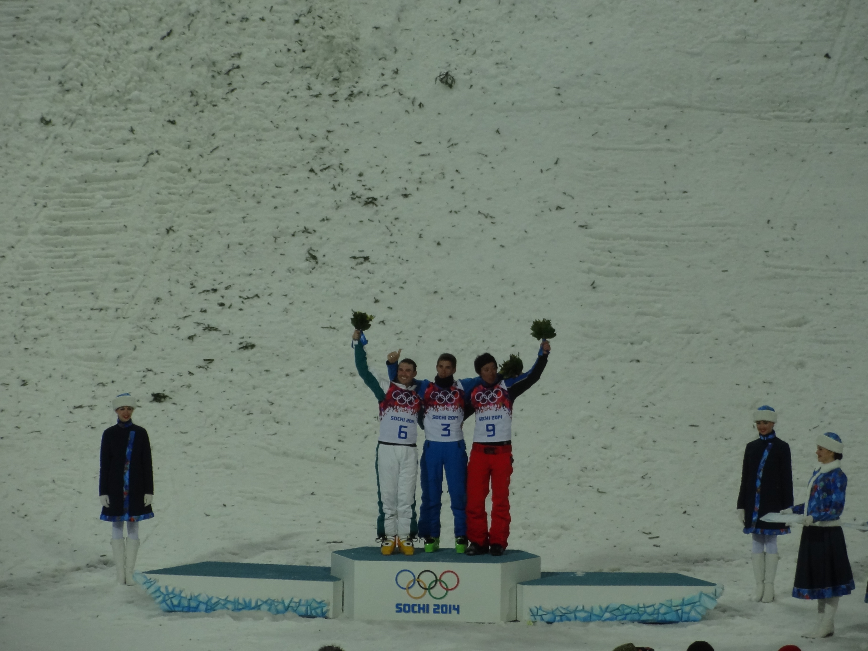 Men's Aerials - Freestyle Skiing - Sochi 2014. Gold: Anton Kushnir, Belarus. Silver: David Morris, Australia. Bronze: Jia Zongyang, China.